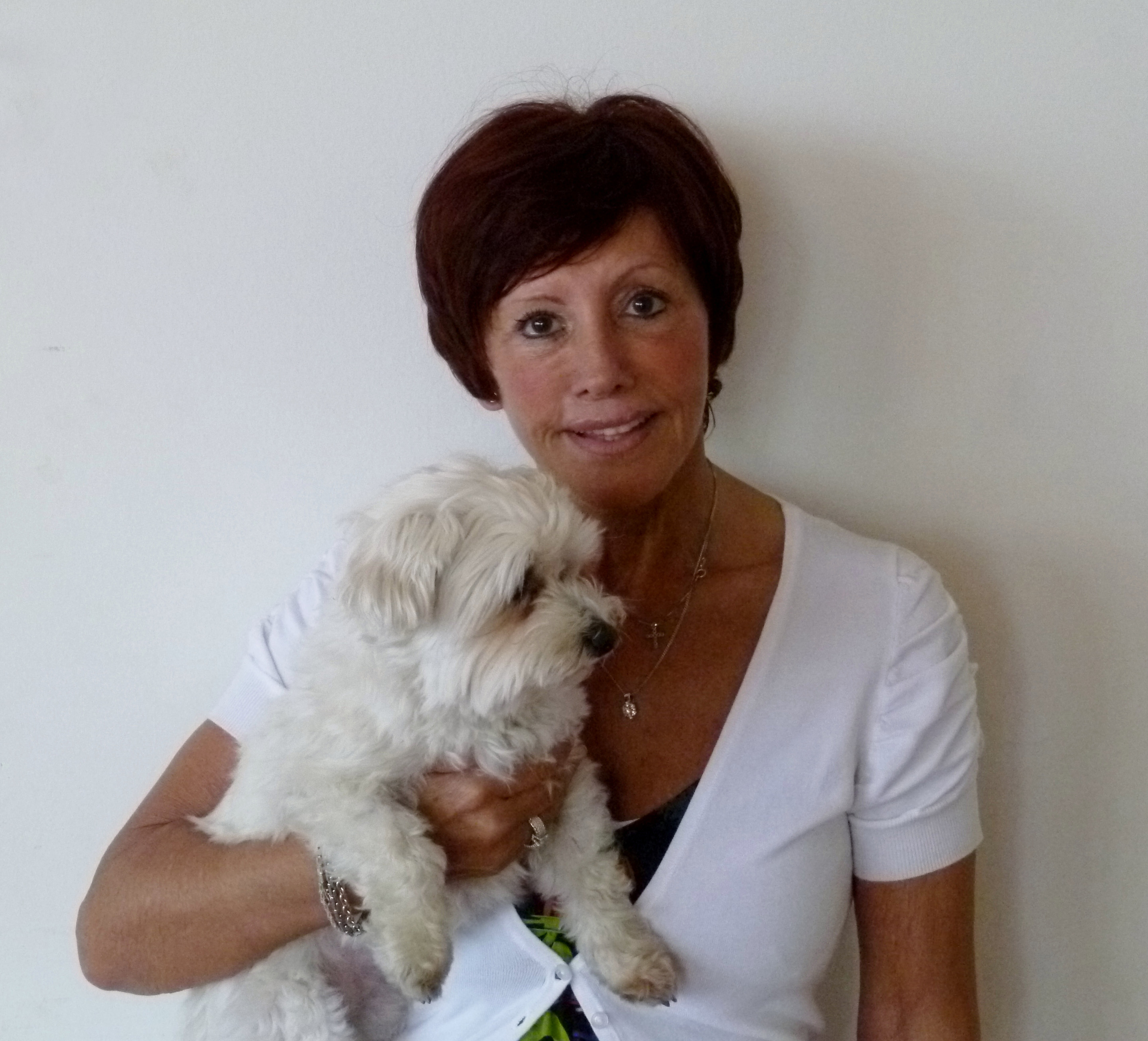 Jacky Lafon, Belgian actress and vocalist